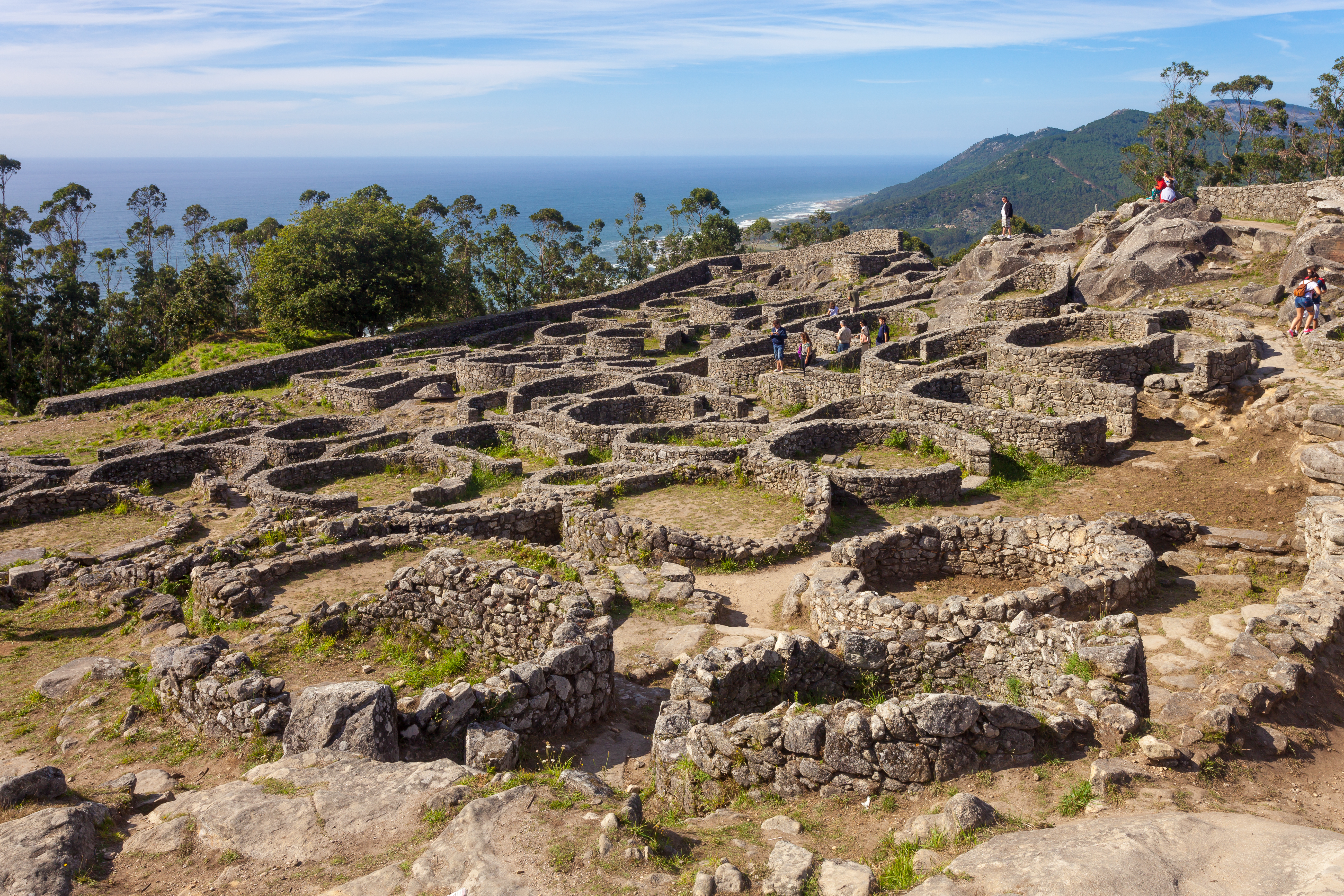 Hill fort of Santa Trega, A Guarda, Galicia (Spain)